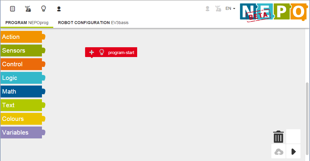 Open Roberta Lab. A cloud-based and open-source online programming environment to program robots